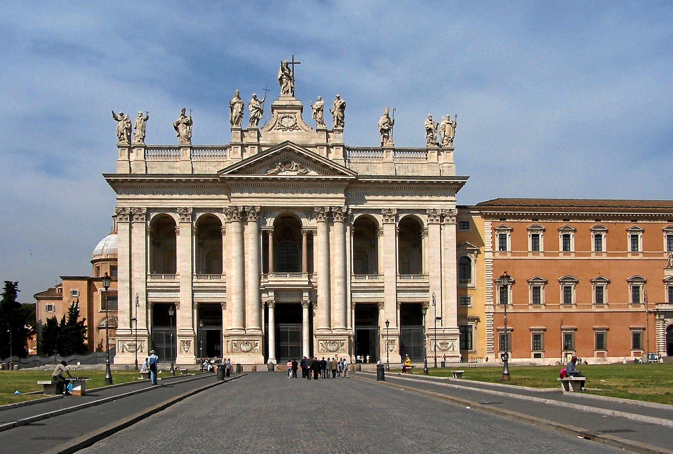 Main façade of the Basilica of St. John Lateran (Rome) by Alessandro Galilei, 1735.